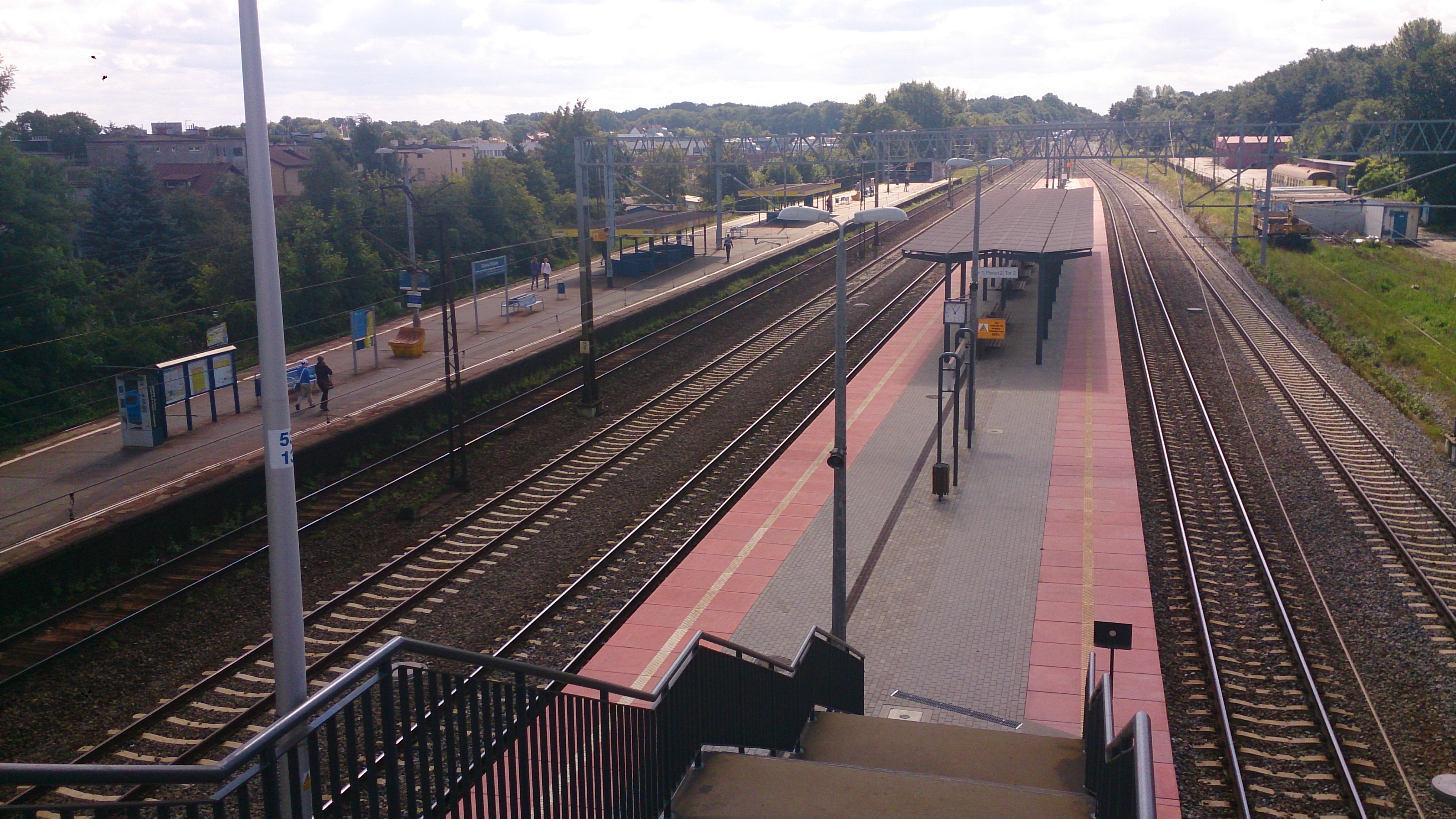 Gdynia Orłowo rail station